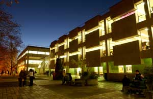 Macquarie University Library at Night